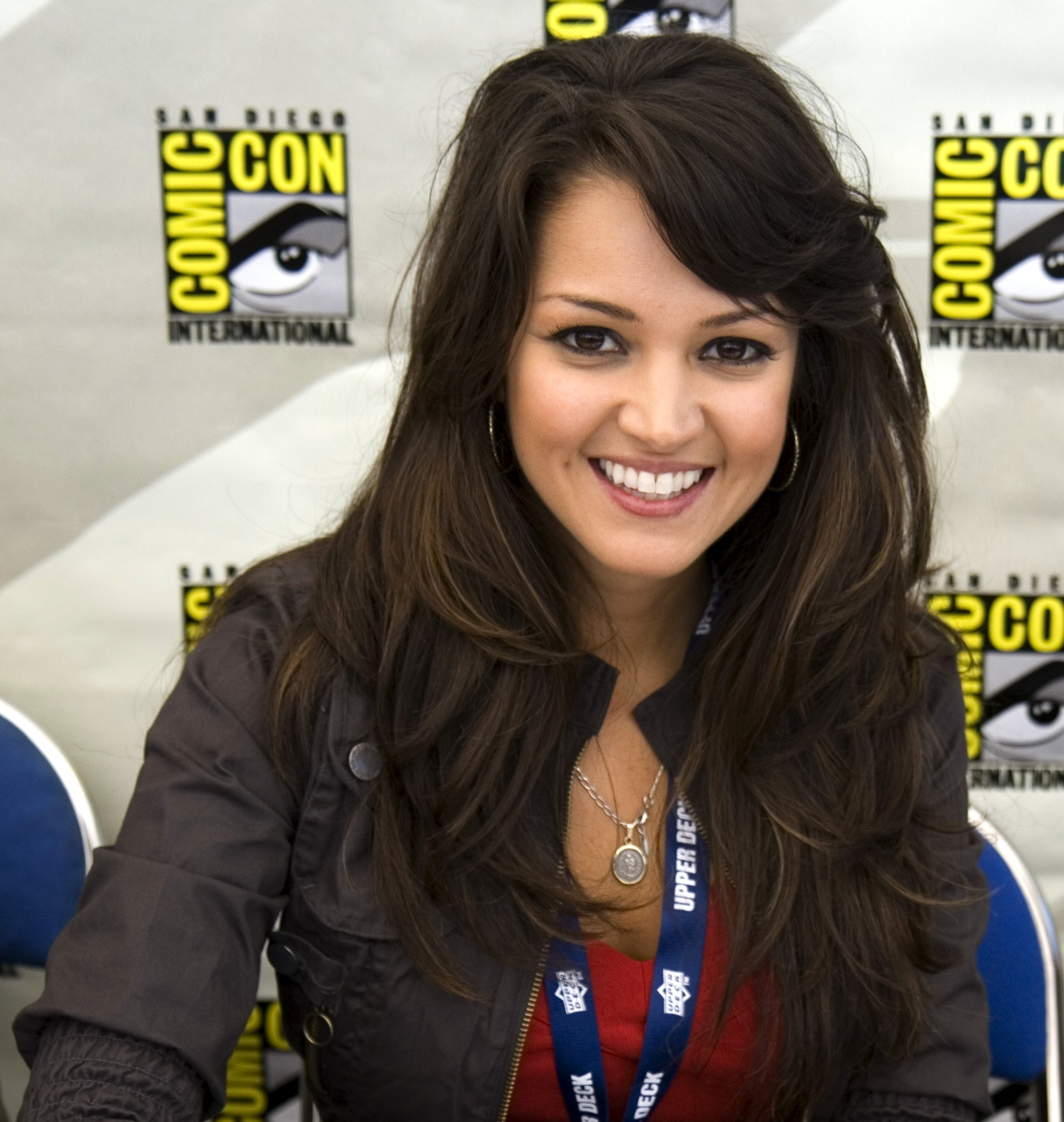 Paula Garcés at Comic-Con 2008